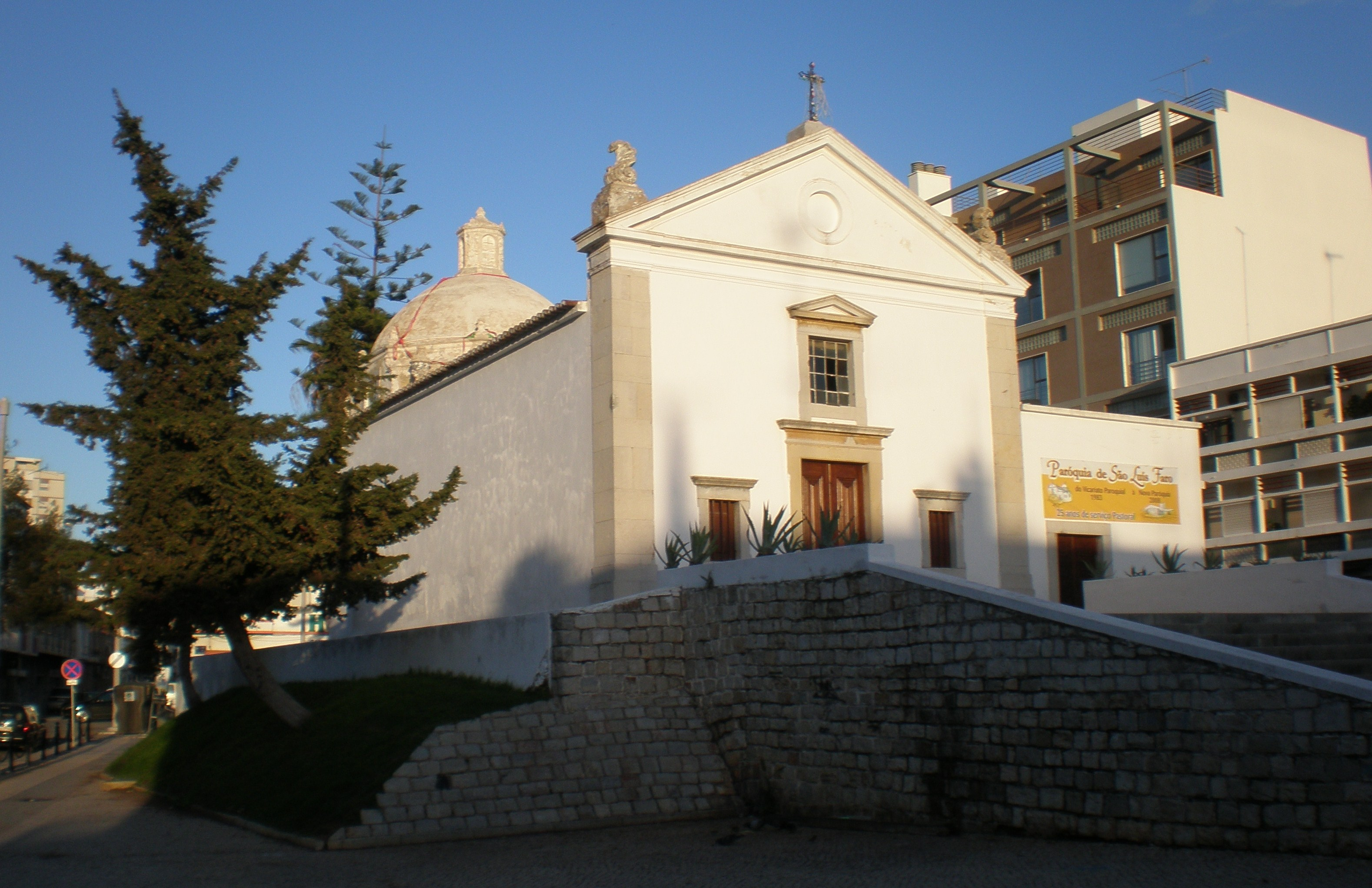 Saint Louis Chapell, Faro, Portugal